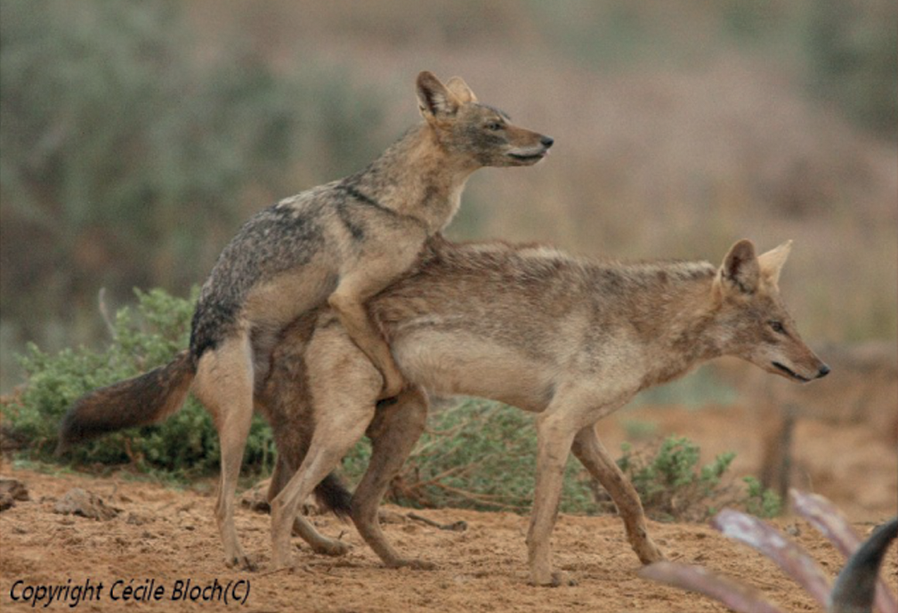 Male African golden wolves in Senegal. (photograph: C. Bloch).